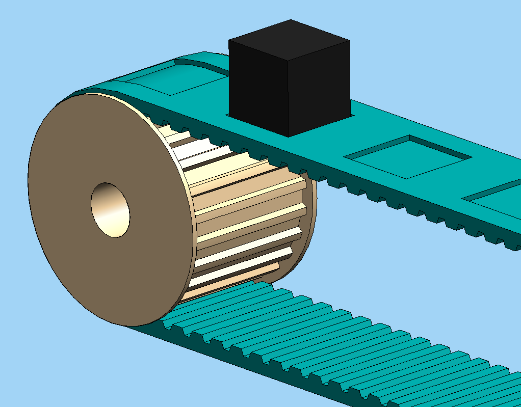 Timing belt conveyor